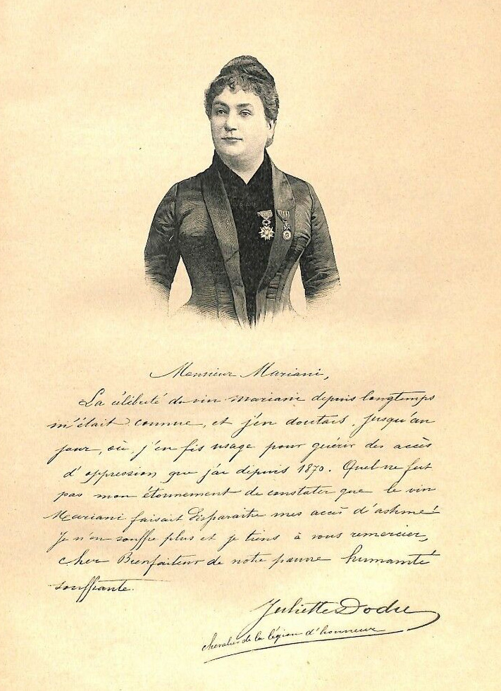 French spy Juliette Dodu (1848-1909)